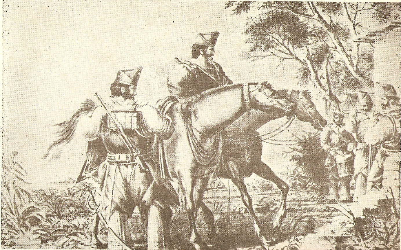 Argentine soldiers "coraceros" (Cuirassiers), 19th century.